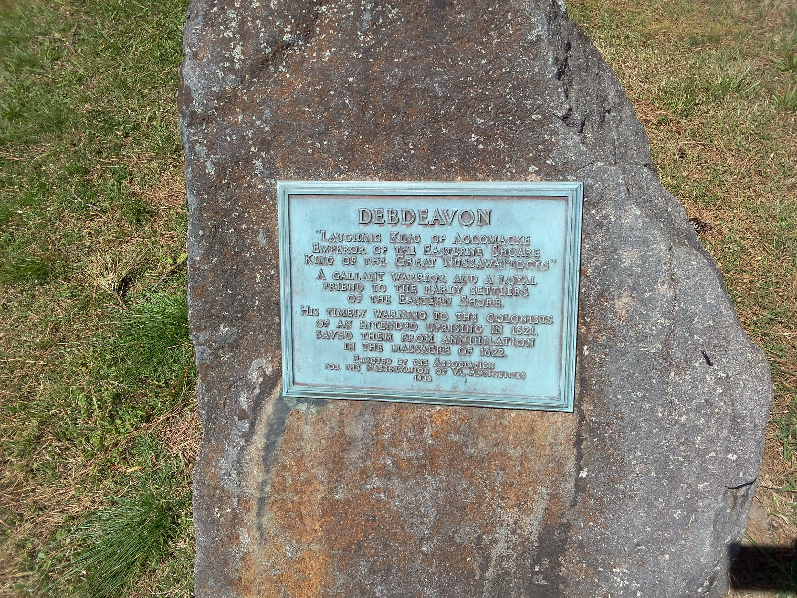 Northampton Courthouse Square